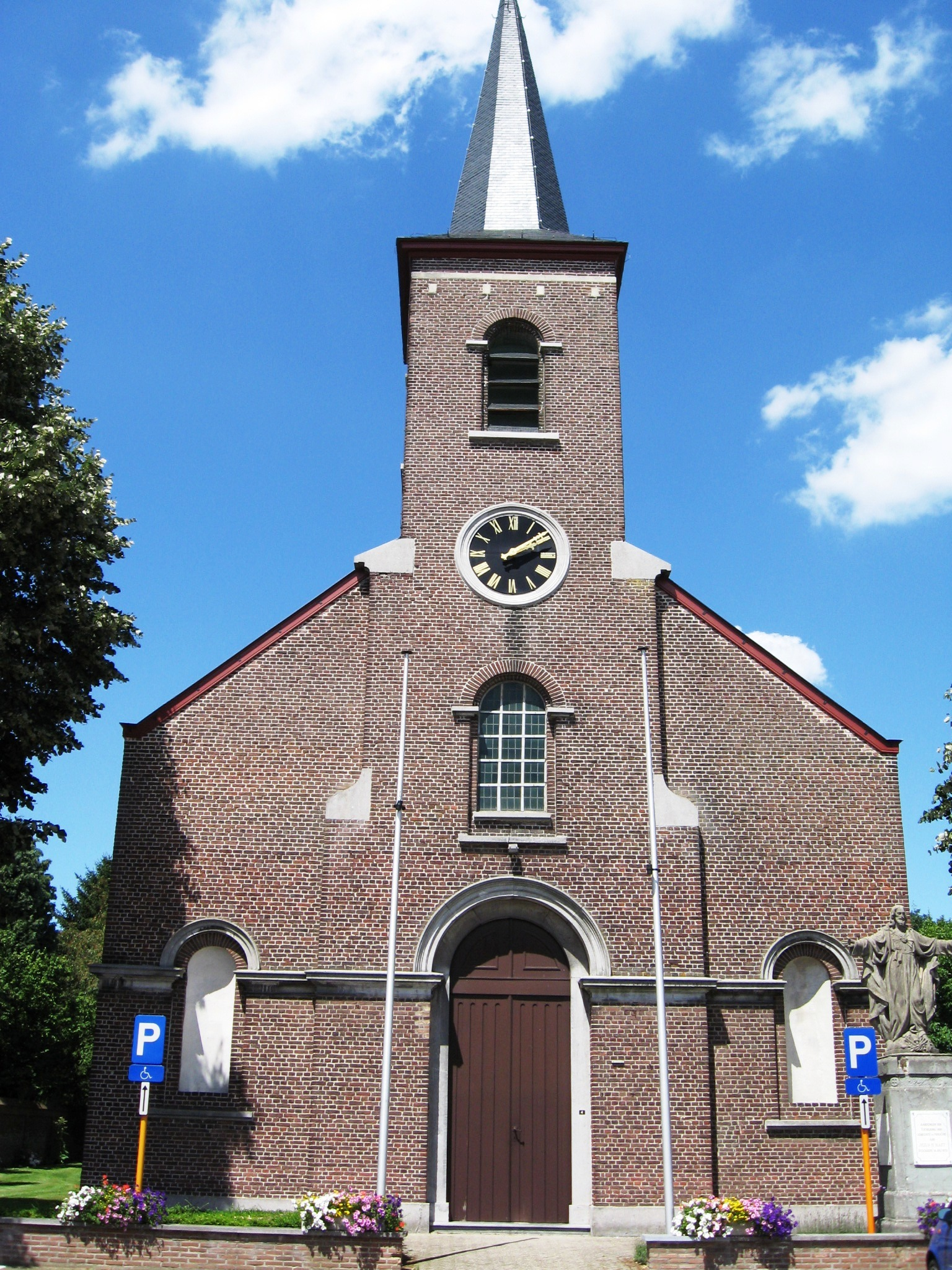 Church of Saint Amand in Stokrooie, Hasselt, Limburg, Belgium